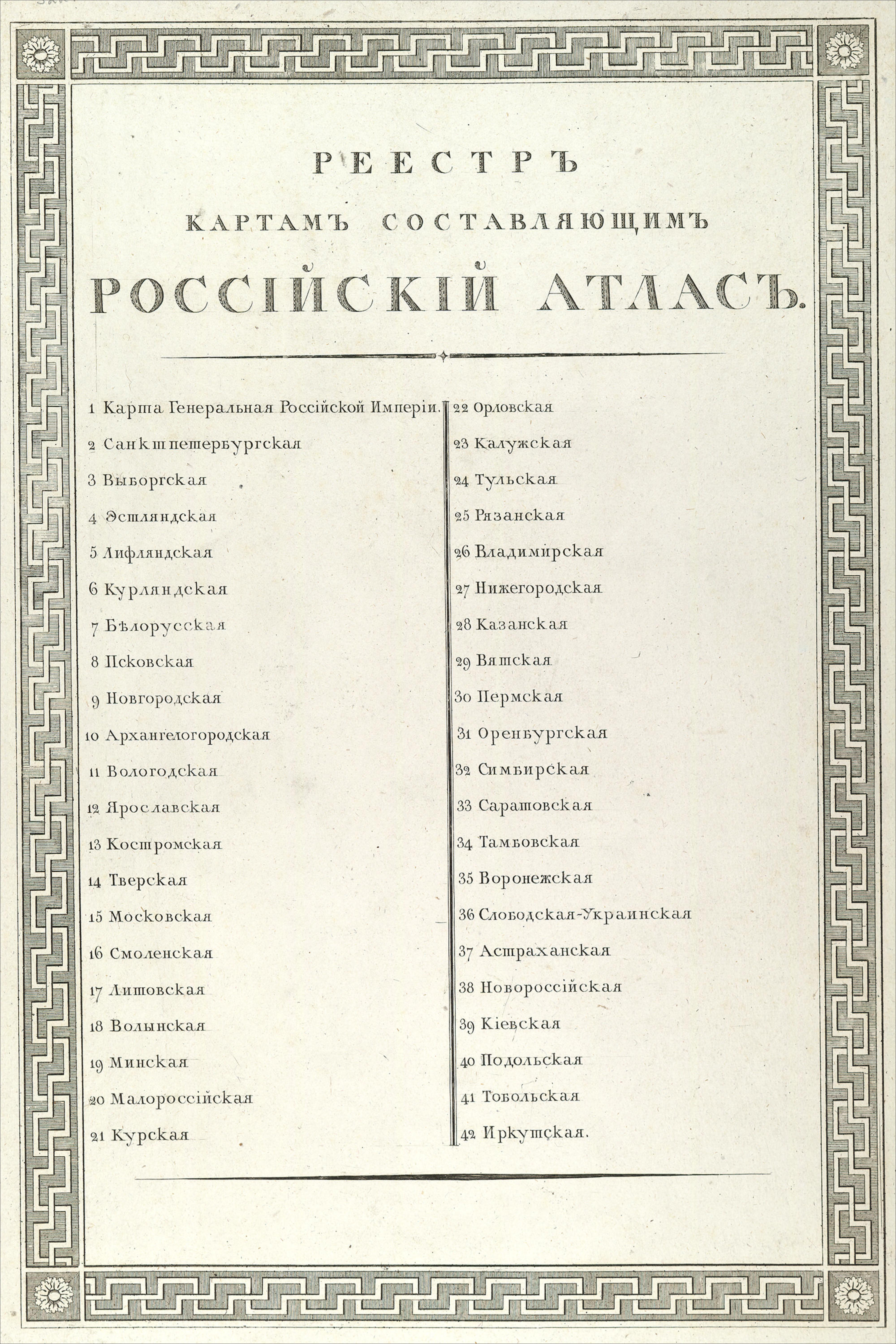 Atlas of Russian Empire. 1800 year. Table of contents